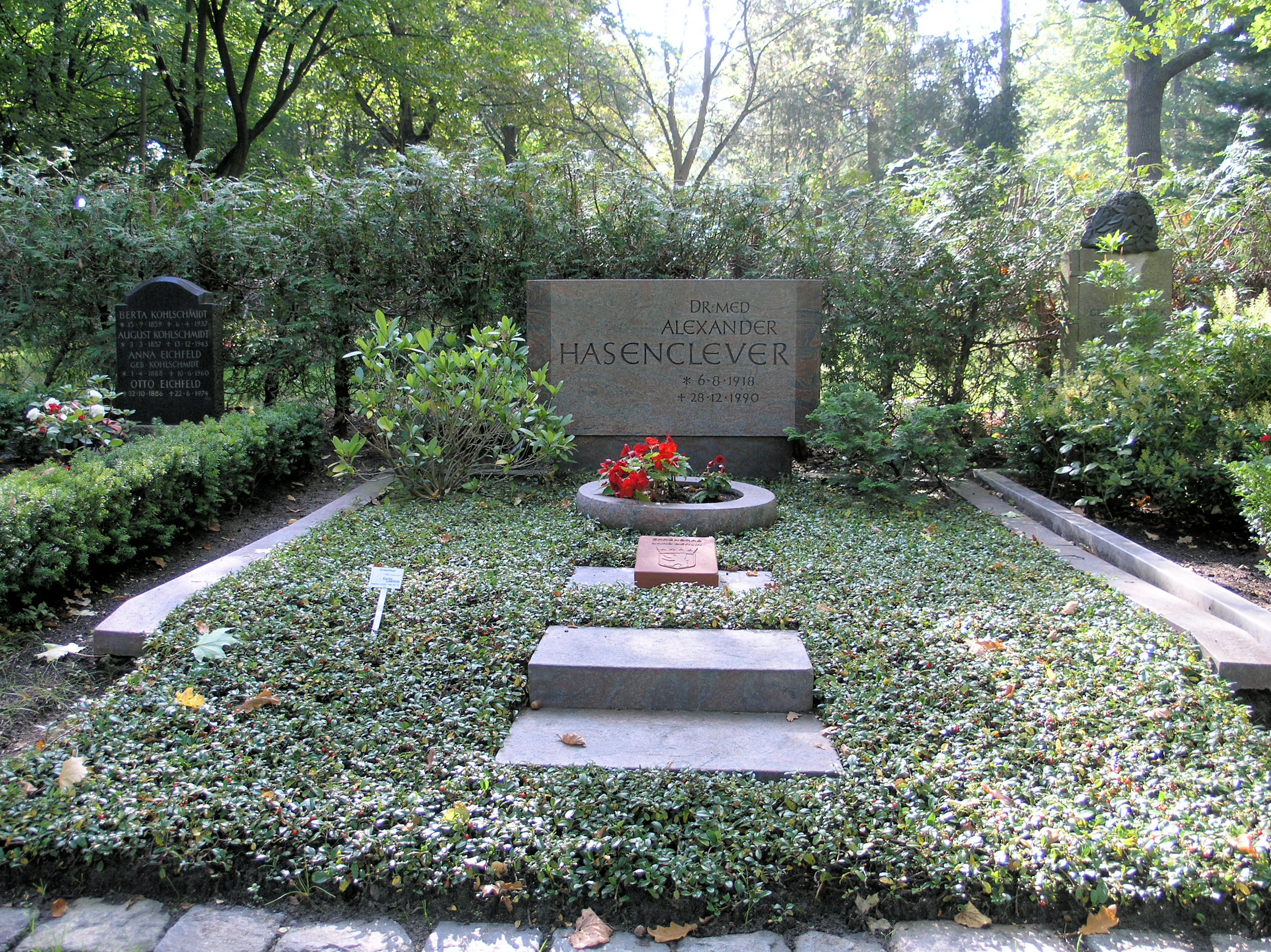 "Ehrengrab" (grave of honor), Alexander Hasenclever, Bergstraße 38, Berlin-Steglitz, Germany Koordinate:52°27′31″N 13°20′33″E / 52.45861°N 13.3425°E